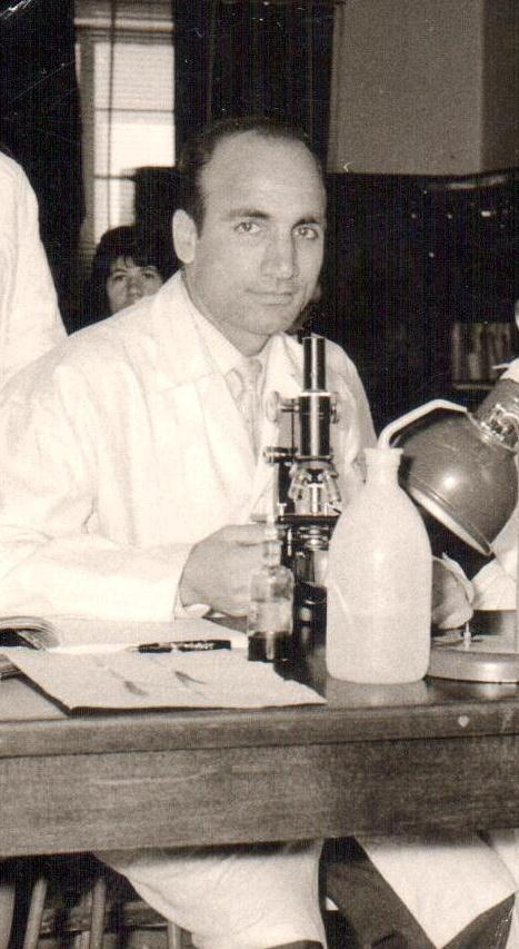 professore of Tehran University